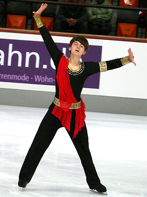 Taras Rajec during his long program at the 2007 Nebelhorn Trophy.